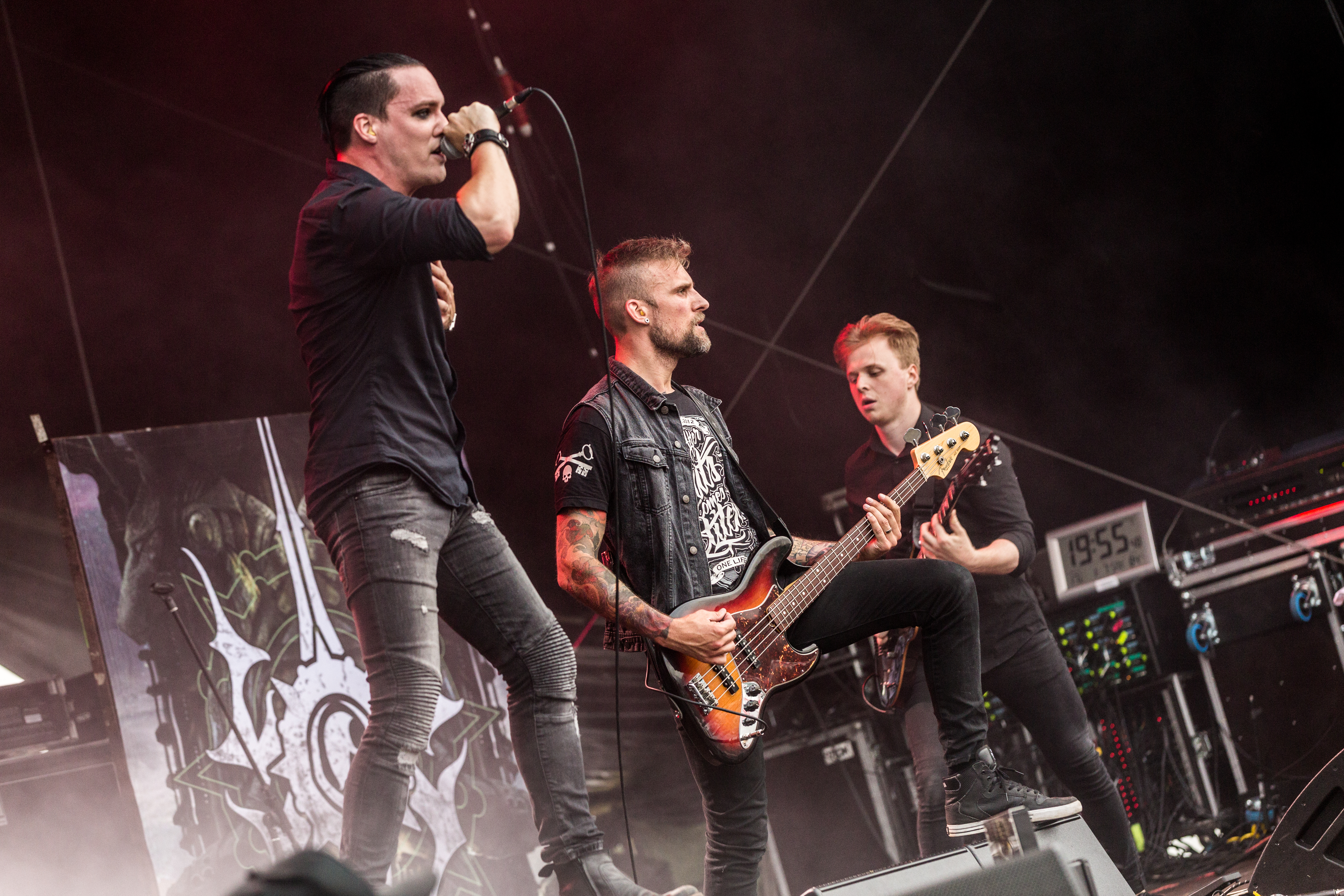 The Swedish melodic death metal band The Unguided at the Metal Frenzy 2017 in Gardelegen/Germany.